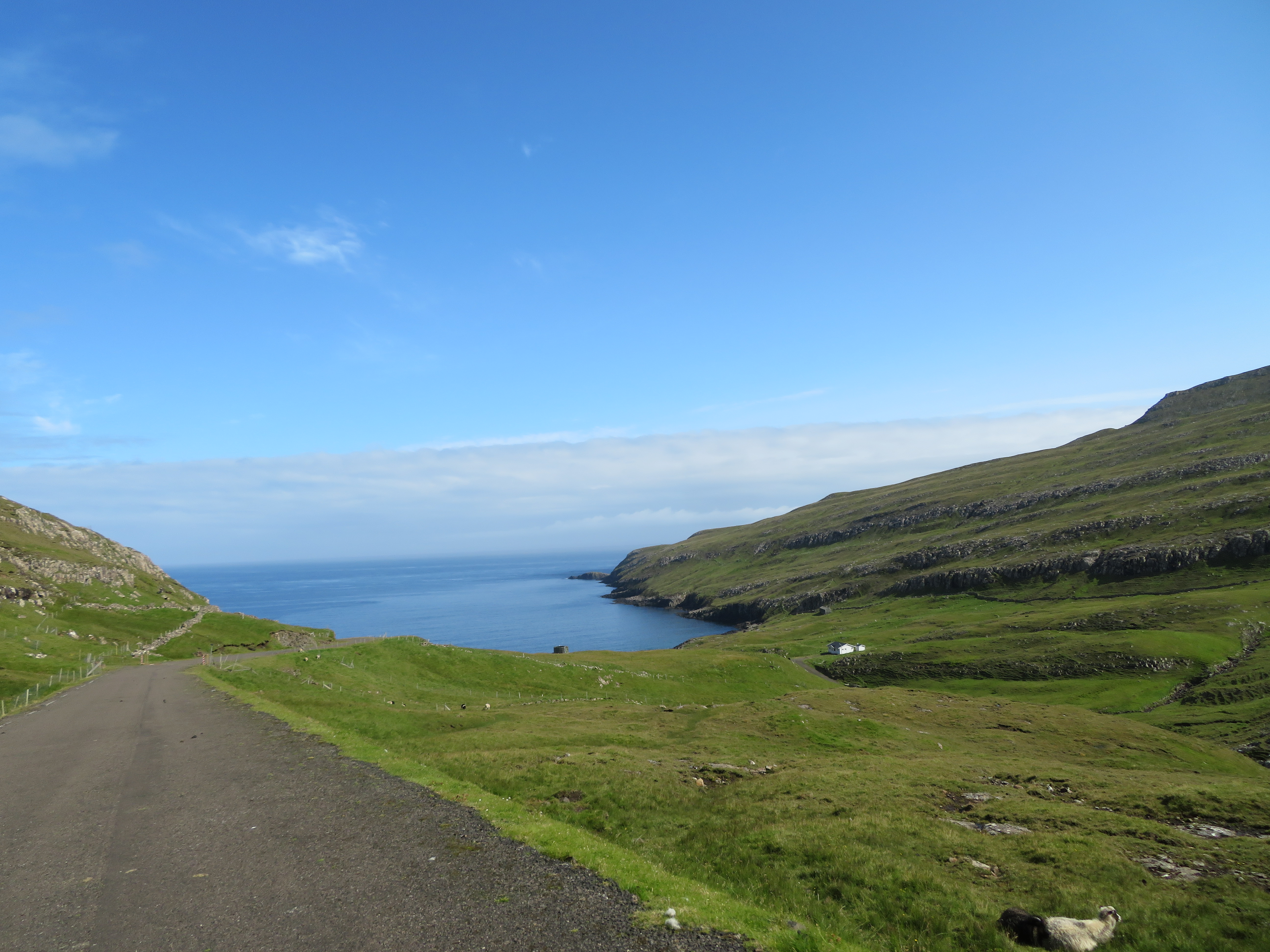 Bay of Víkarbyrgi, View from the street Víkarbyrgisvegur